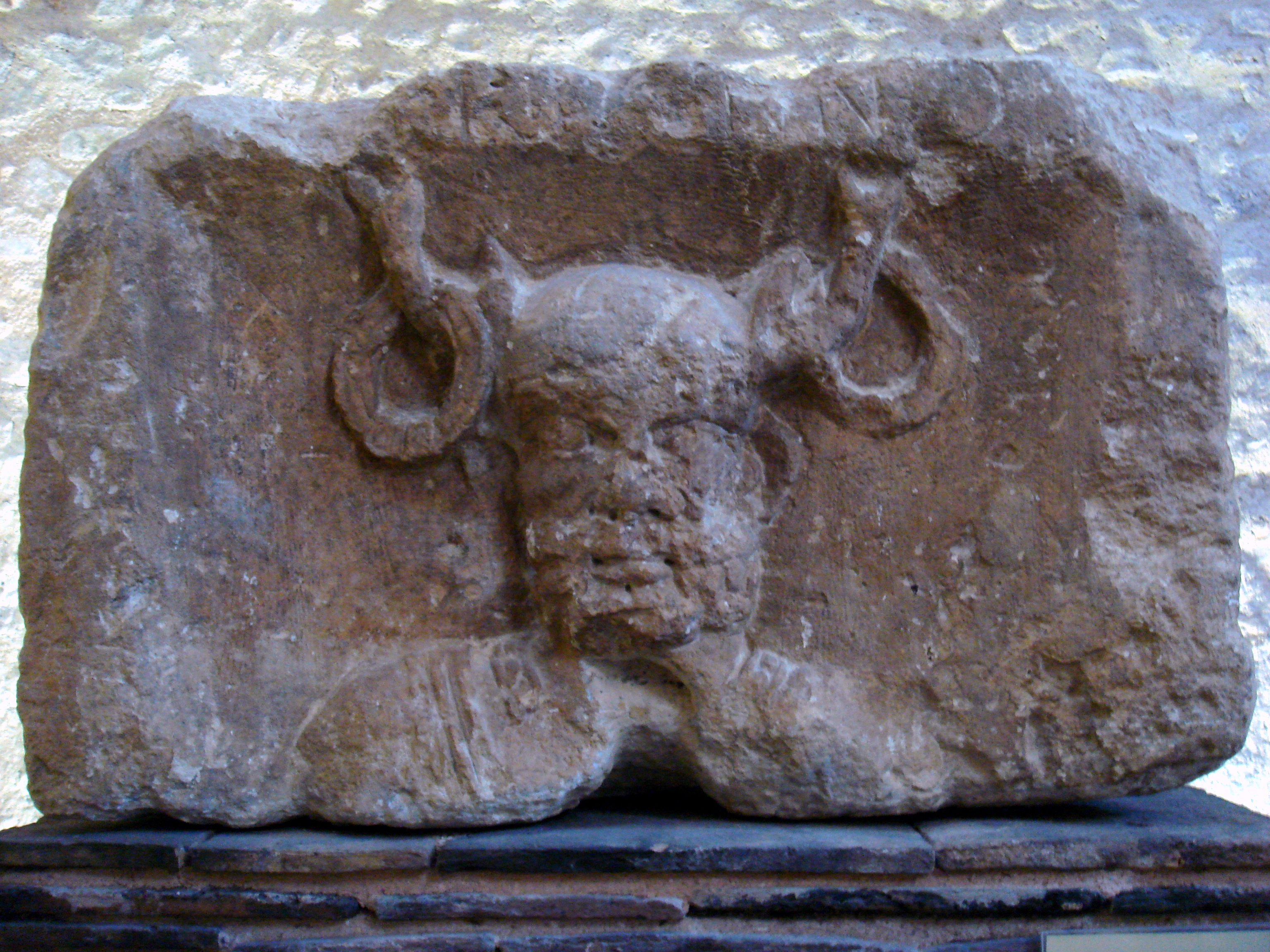 Pilier_des_Nautes_Cernunos, Paris